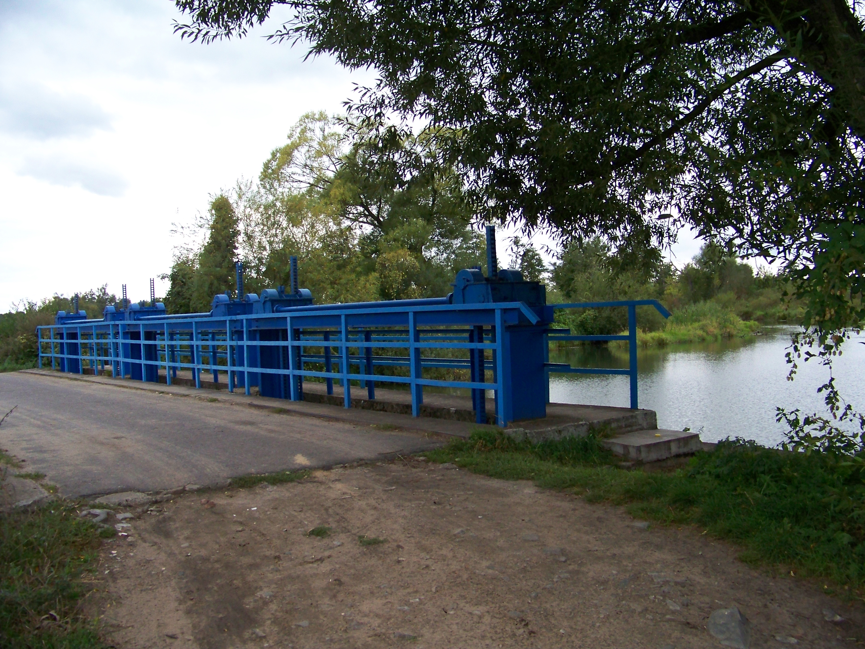 bridge, river